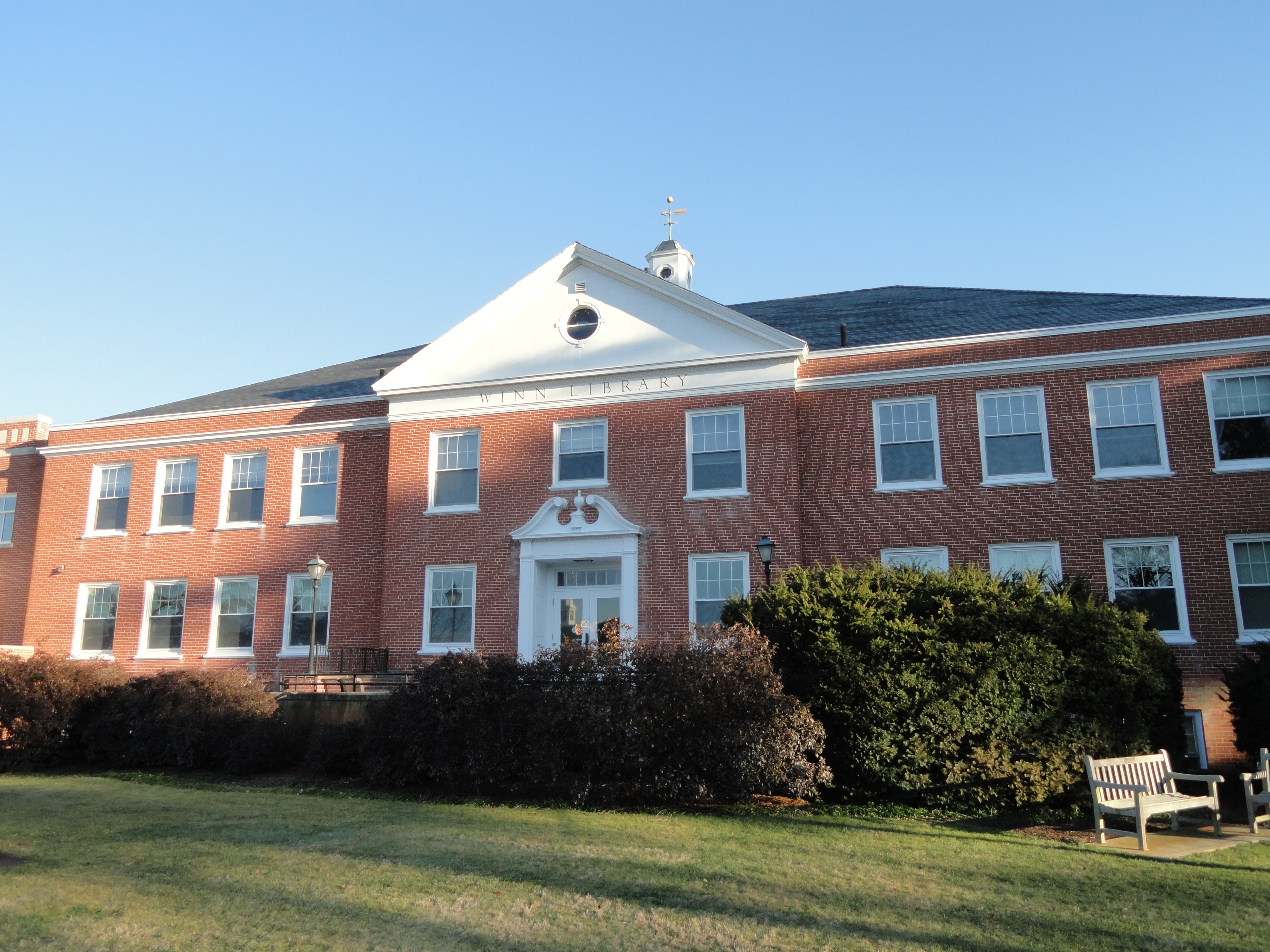 Gordon College, 255 Grapevine Road, Wenham, Massachusetts, USA.